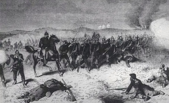 The Prussian guards at the battle of Sedan (1870)